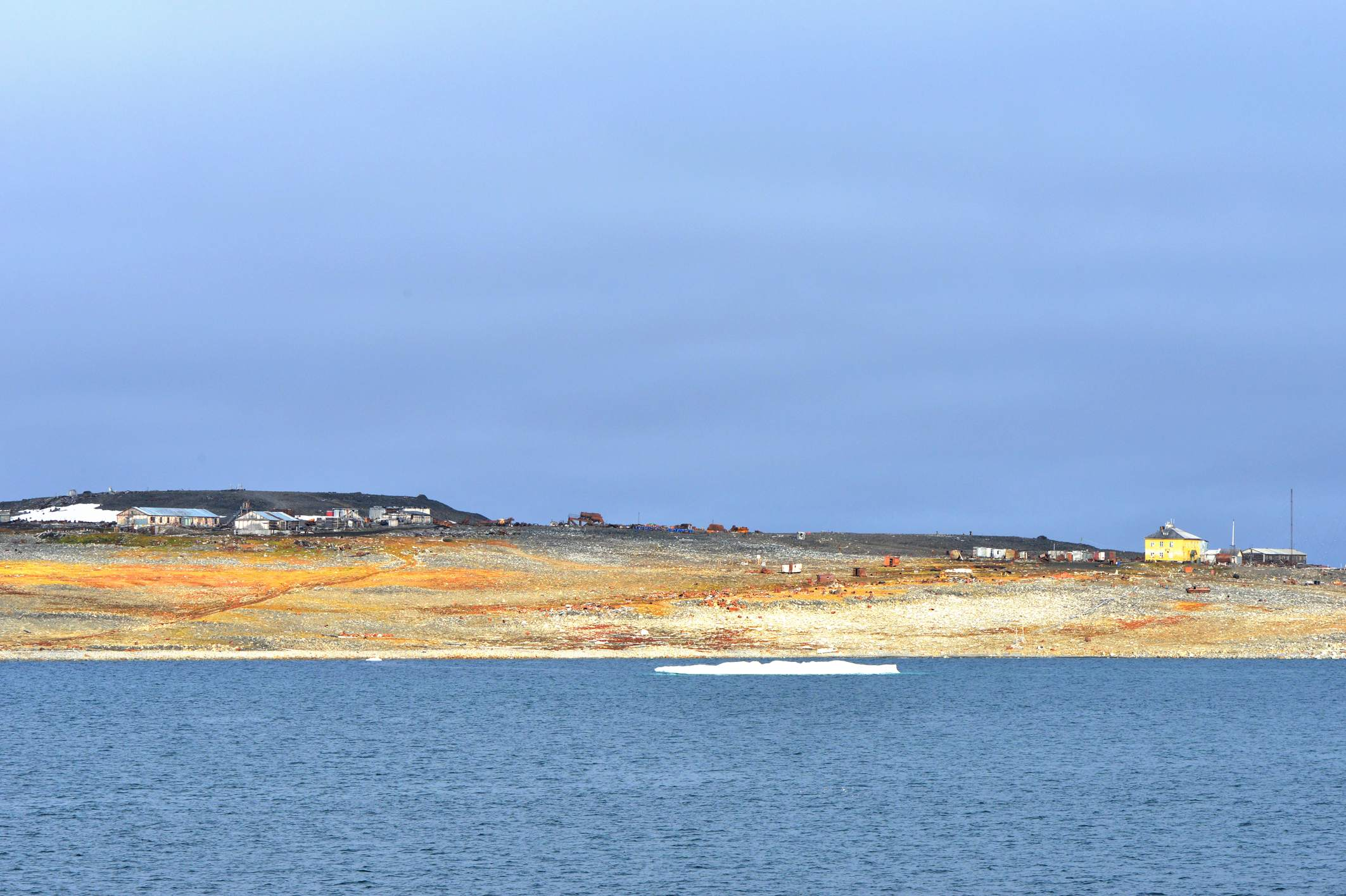 Solnechnaya Bay (Southern coast of Bolshevik Island, Severnaya Semlya, Russia; 78°11’N, 103°7’E)